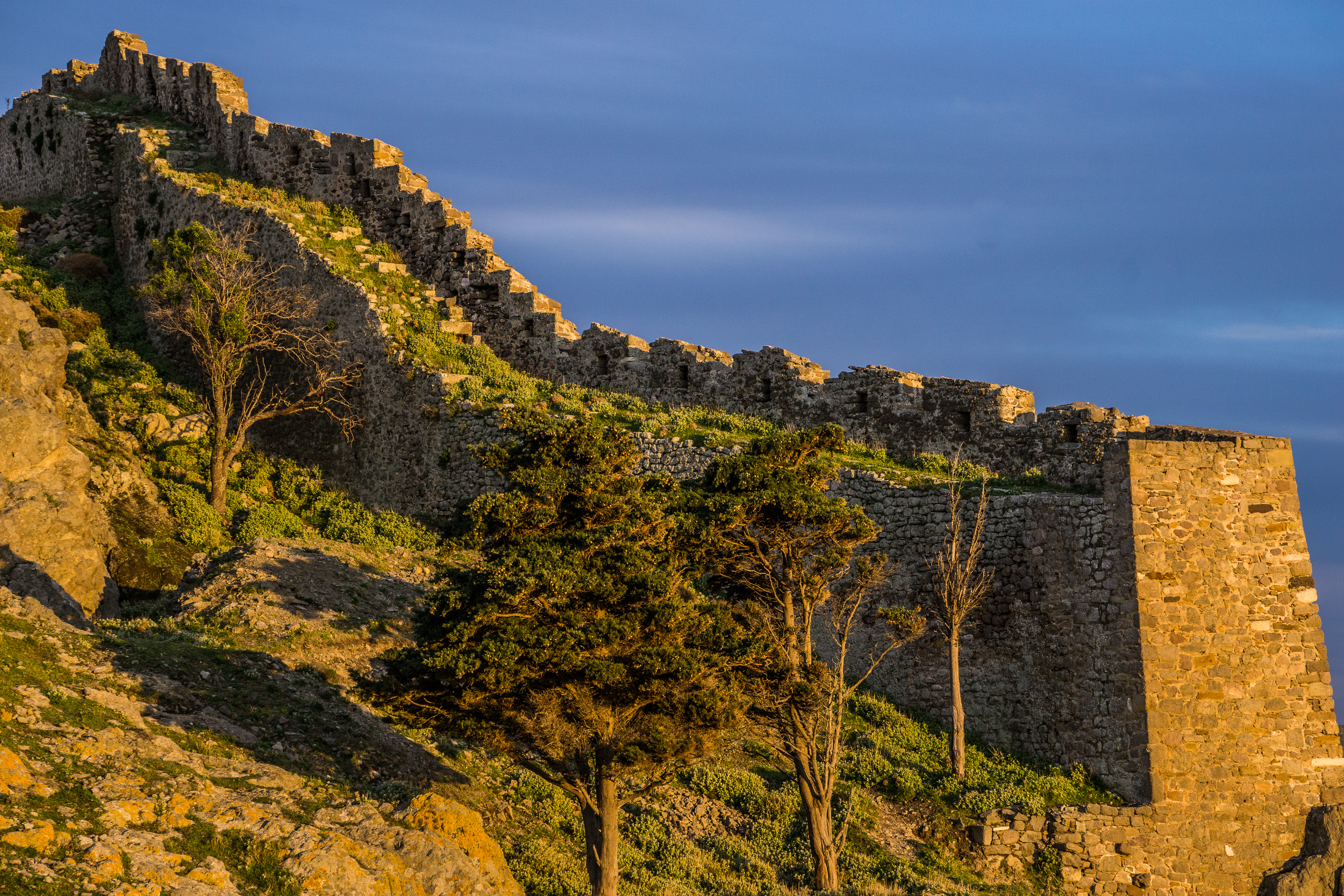 Walls of Myrina castle in Lemnos «Κάστρο Μύρινας»